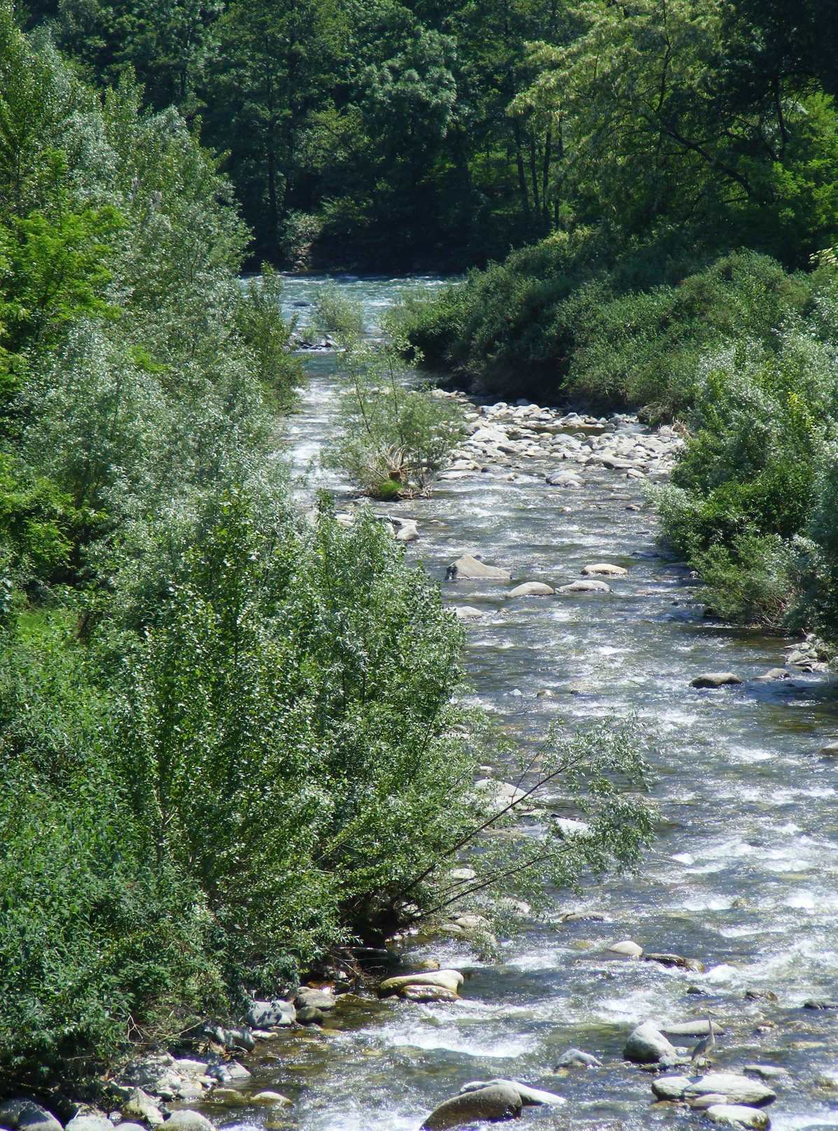 Tesso creek at its confluence in the Stura di Lanzo